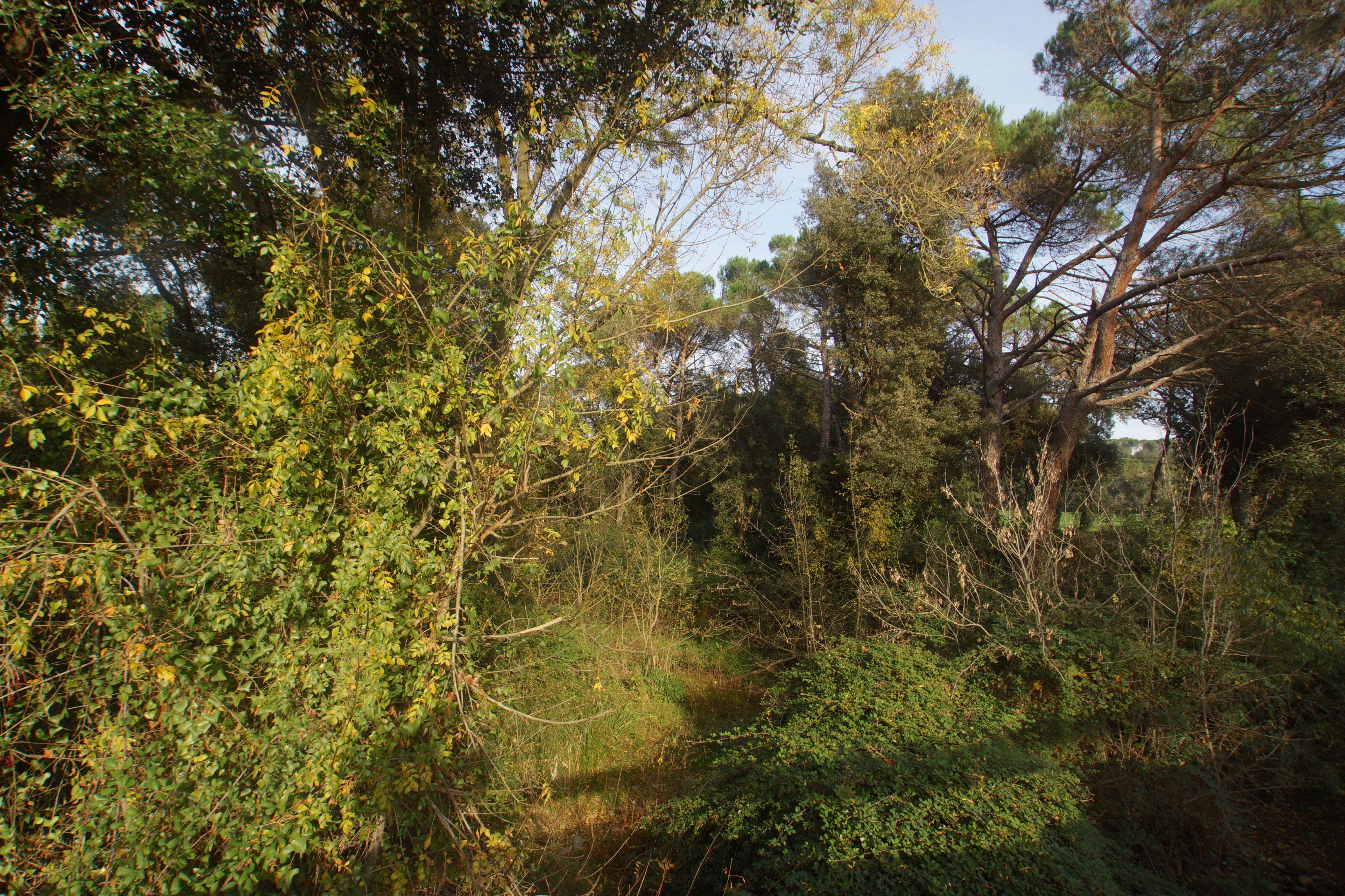 La Bisbal d'Empordà, Catalonia: Riparian forest at the river Riera del Vilar at the border with Cruïlles and Sant Sadurní de l'Heura